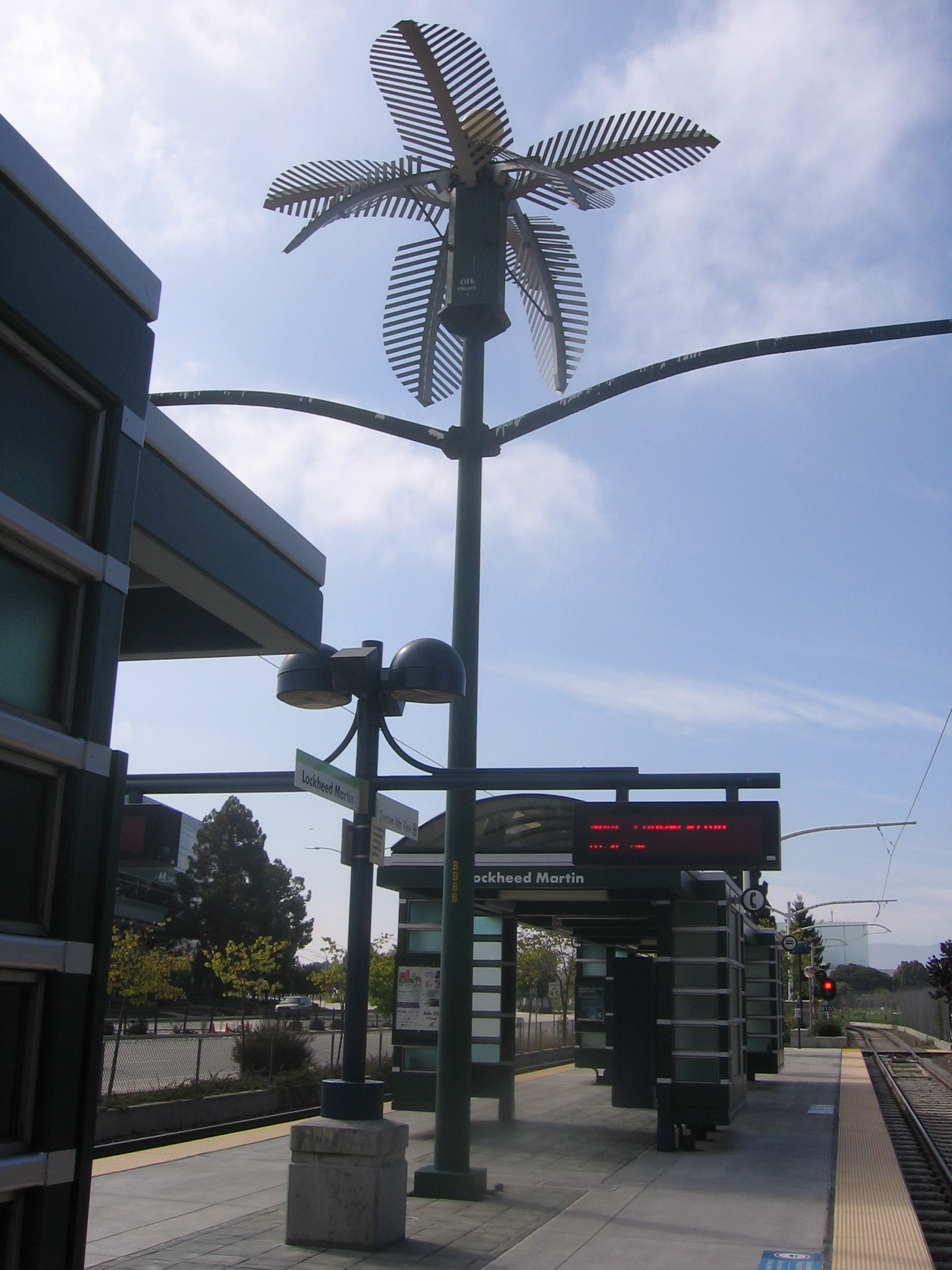 The Lockheed Martin Transit Center in Sunnyvale, California, USA.